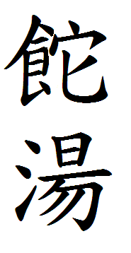 A Chinese character in the name of "Sha tang", a kind of Chinese food. Top character is encoded in CJK Extension F as U+2EA3B 𮨻.